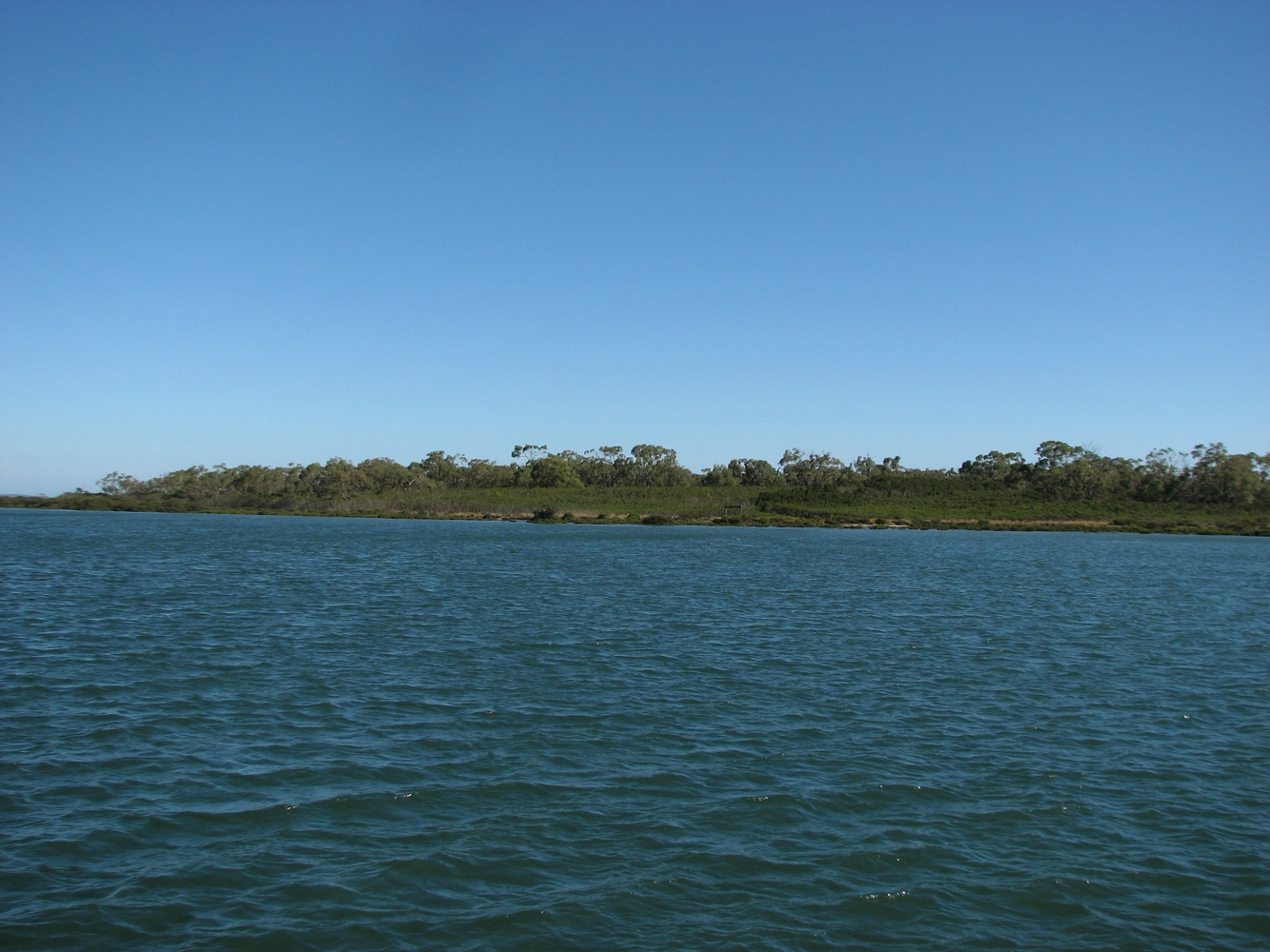 Quail Island from Warneet, Victoria, Australia